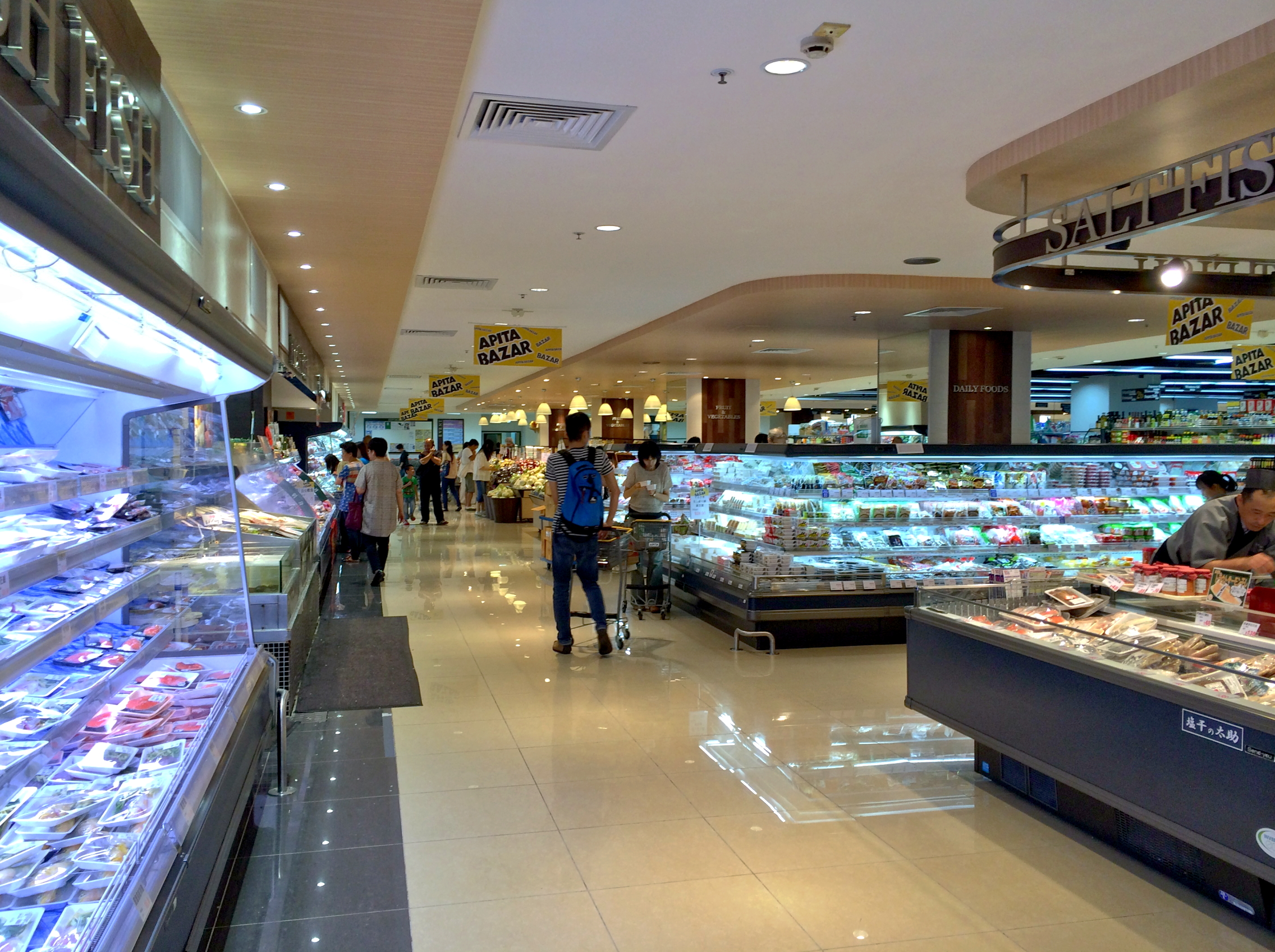 APITA Supermarket inside Cityplaza